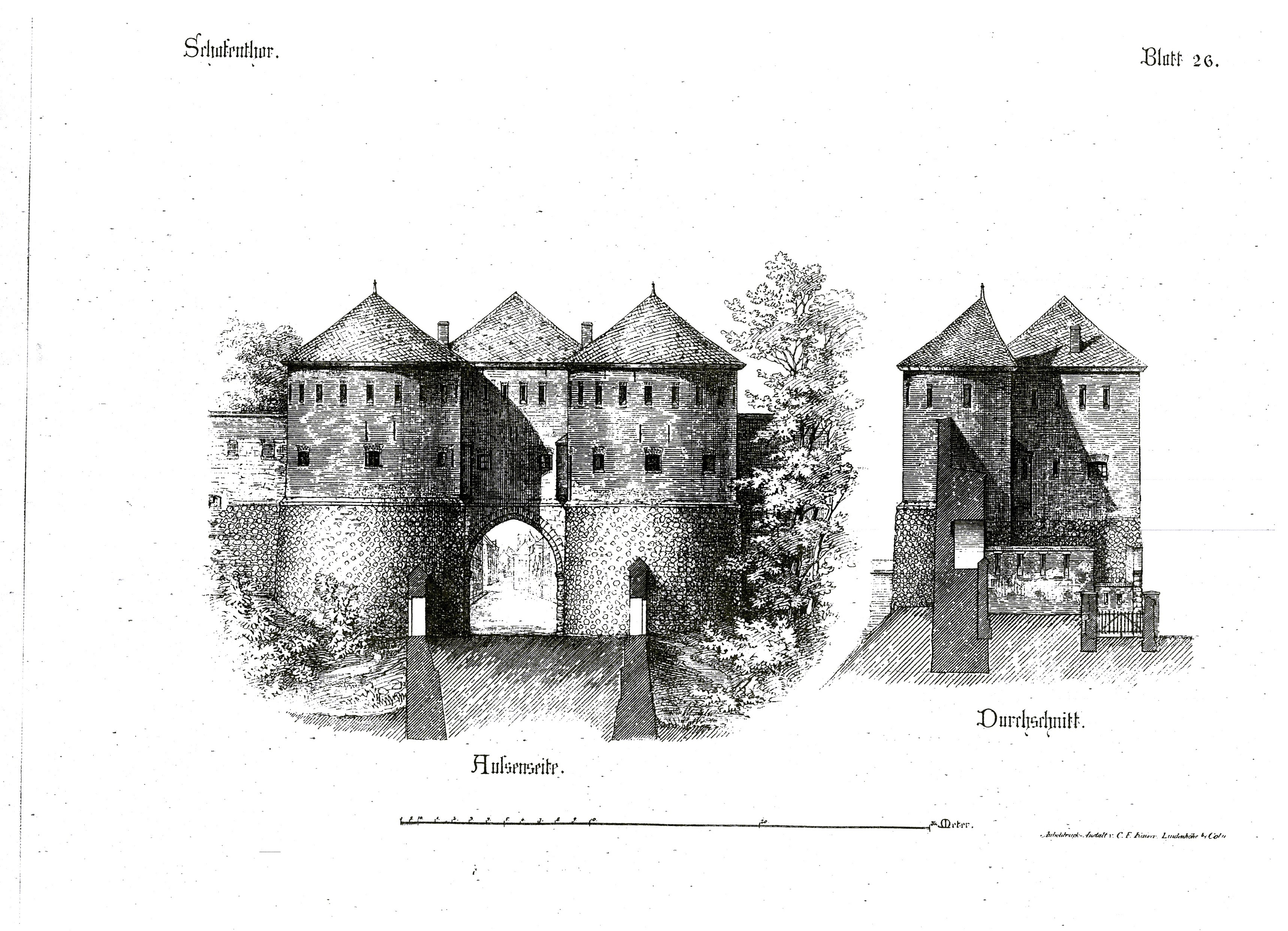 This is a scan of the historical document